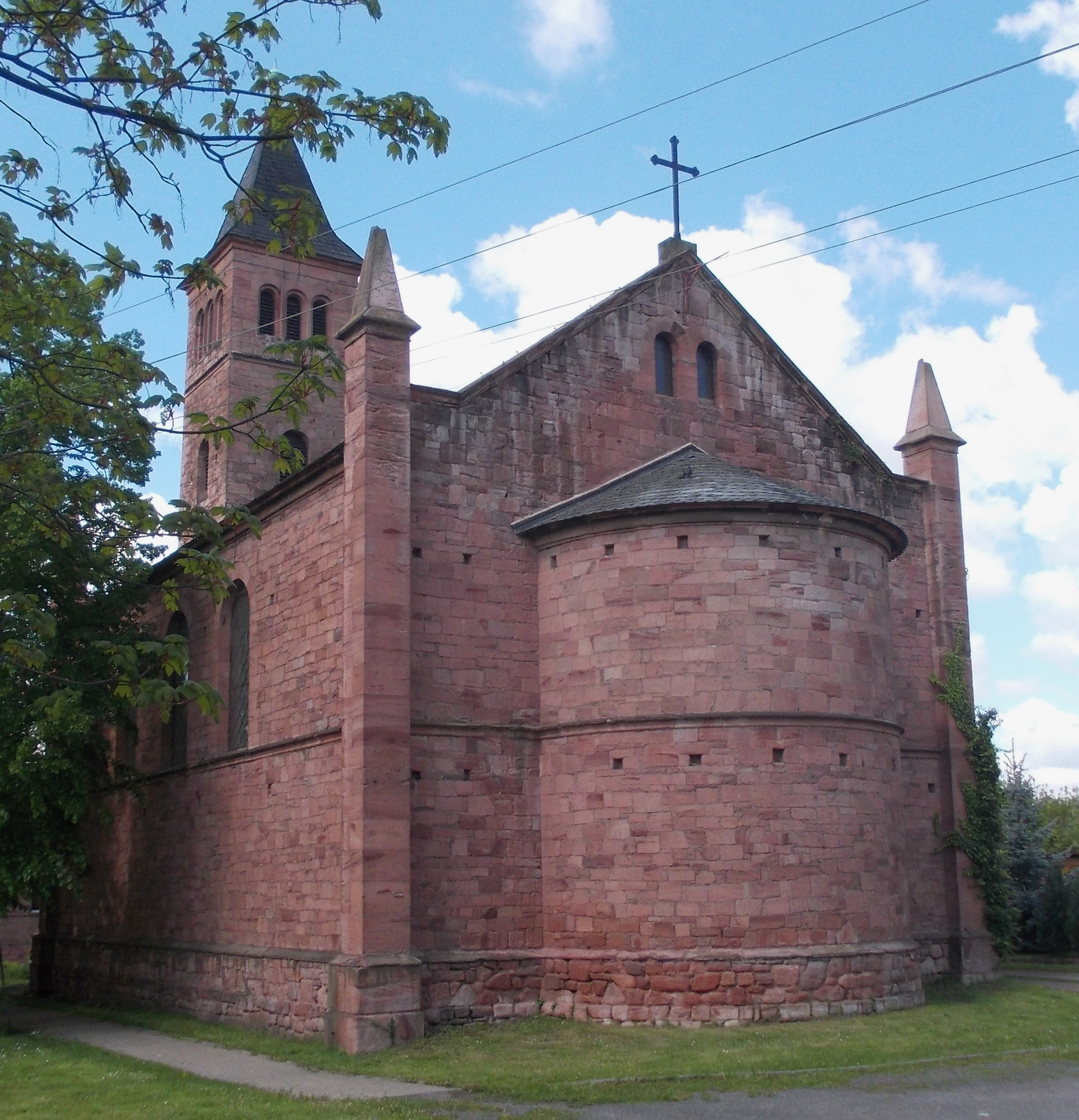 St. Mary's Church in Rothenburg (wettin-Löbejün, district: Saalekreis, Saxony-Anhalt)